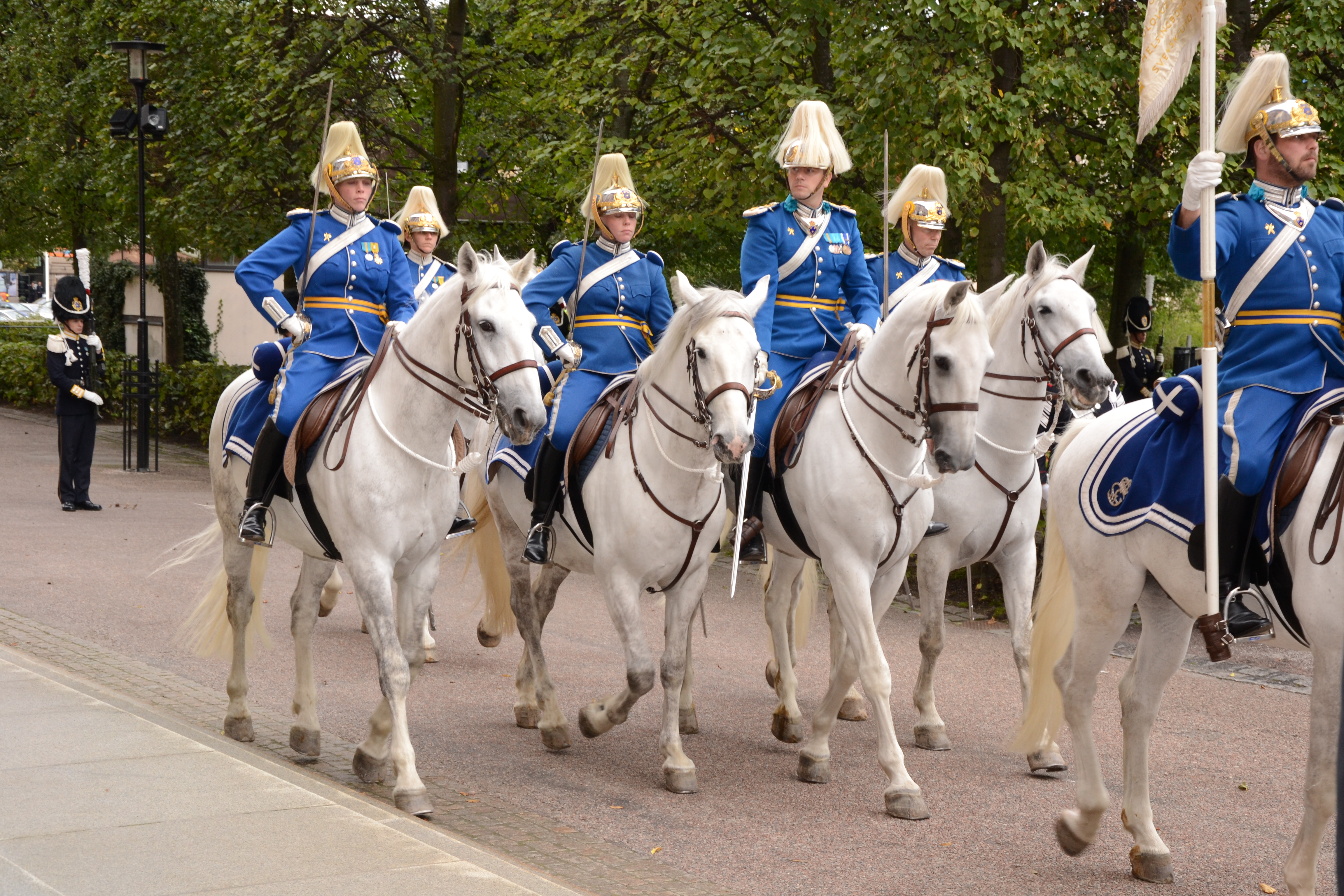 Opening of the swedish parliament, 15-sep-2011